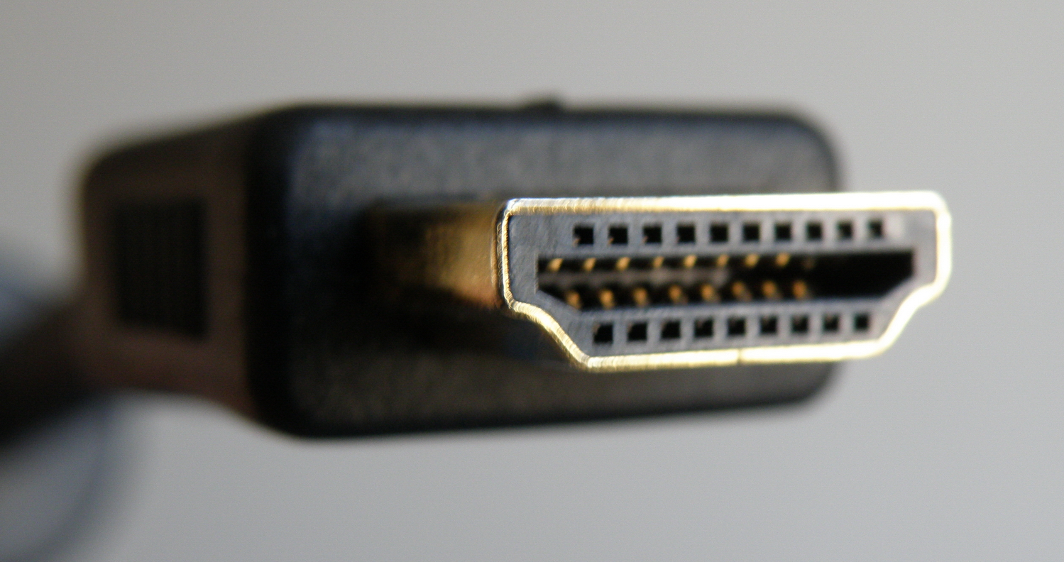 HDMI Connector Connects an HDMI compatible device to a monitor or projector with VGA port; A VGA cable (sold separately) is required.